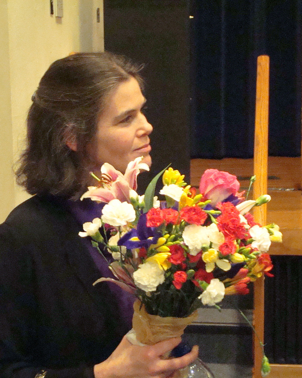 Daphne Koller in 2009